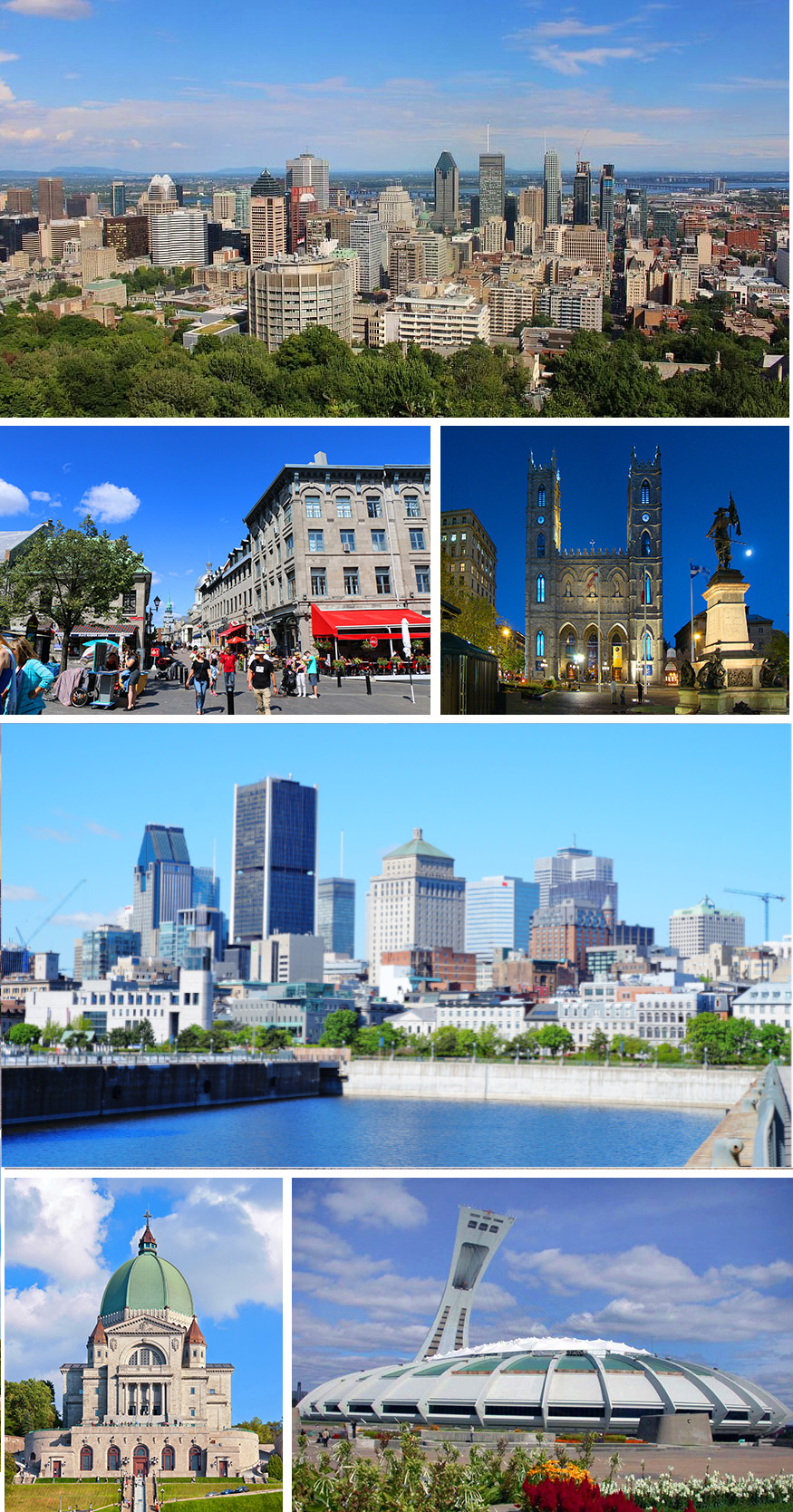 This is a montage of Montreal for 2020